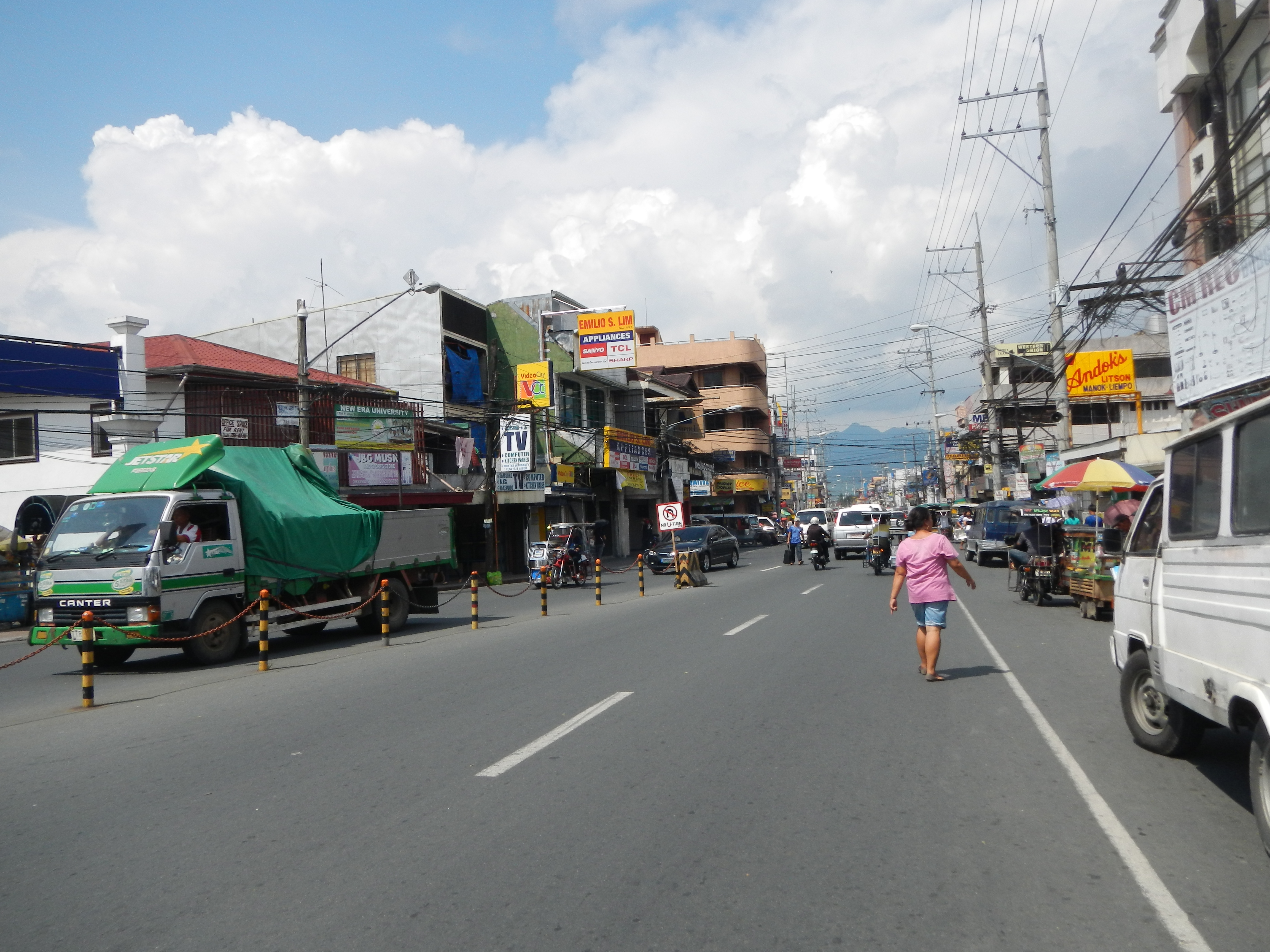 Downtown, Poblacion, Barangay 1, beside Lipa City Monument of Claro M. Recto[1]Claro Mayo Recto, Jr. (February 8, 1890 – October 2, 1960) was a Filipino politician, jurist, poet and one of the foremost statesmen of his generation. He is remembered mainly for his nationalism, for "the impact of his patriotic convictions on modern political thought".[2]13° 56' 25.70" N 121° 9' 36.41" E[3]Coordinates: 13°56'25"N 121°9'35"E[4]Lipa City, Batangas[5] Website The City of Lipa (Filipino: Lungsod ng Lipa) /Li-pâ/ is a first class component city in the province of Batangas in the Philippines. [6]Batangas, Lipa City, Poblacion Barangay 1[7] Claro M. Recto Avenue: Known as the "Downtown", it is located within the city and is the center of business and commerce. About 20 banks and several fast-food chains are located along the avenue Lipa City, Batangas